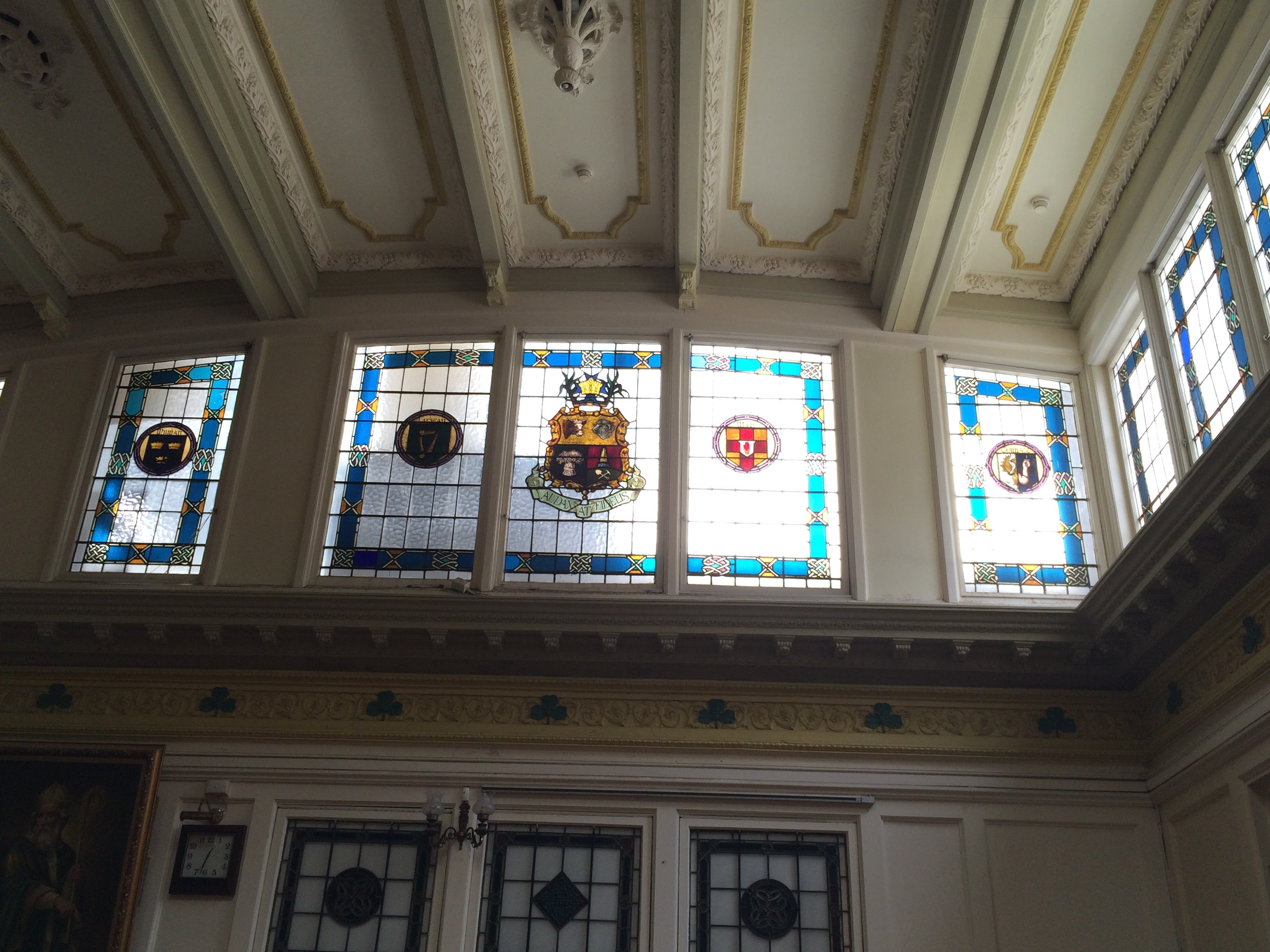 Tara Ball Room (detail), Tara House (Irish Club)